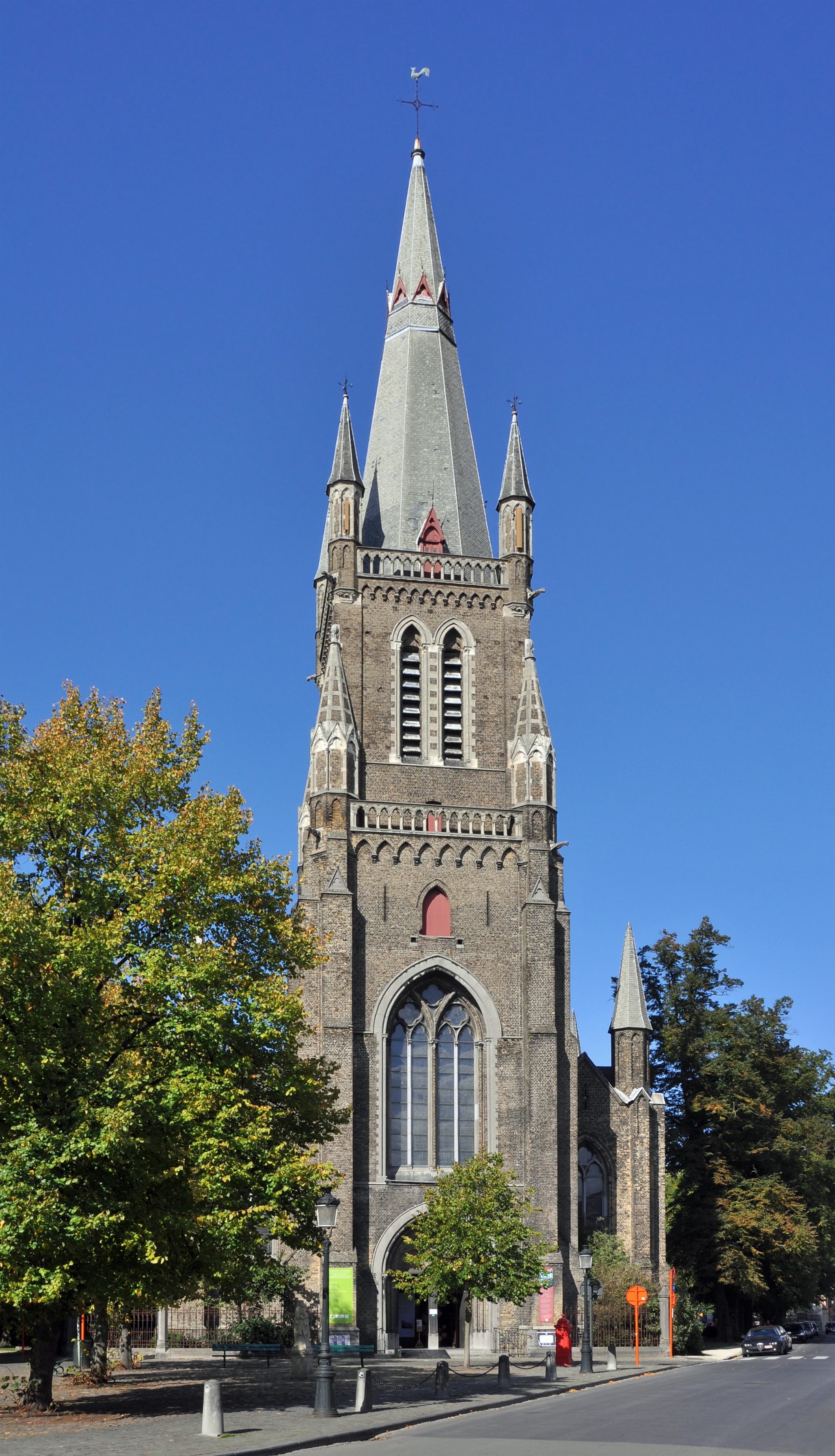 Bruges (Belgium): St Magdalena church